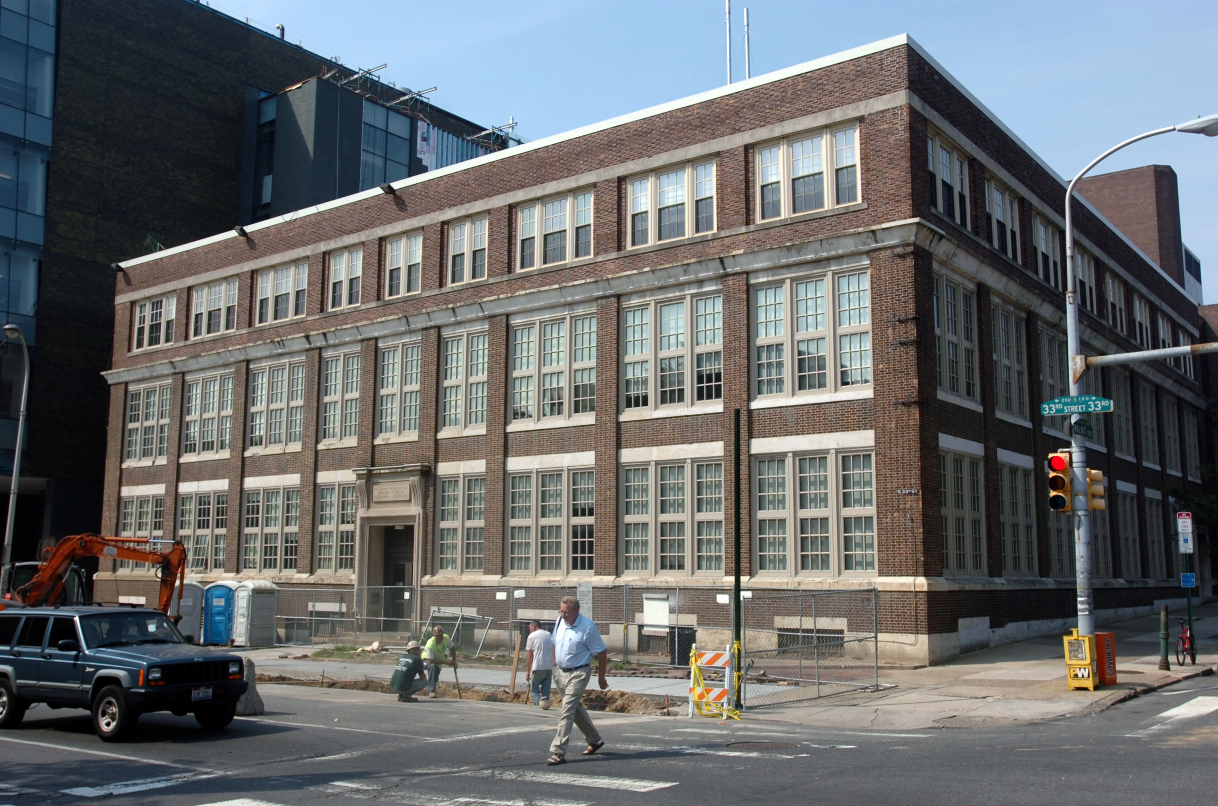 Moore School of Electrical Engineering, University of Pennsylvania, SW corner 33rd & Walnut Streets, Philadelphia, Pennsylvania.